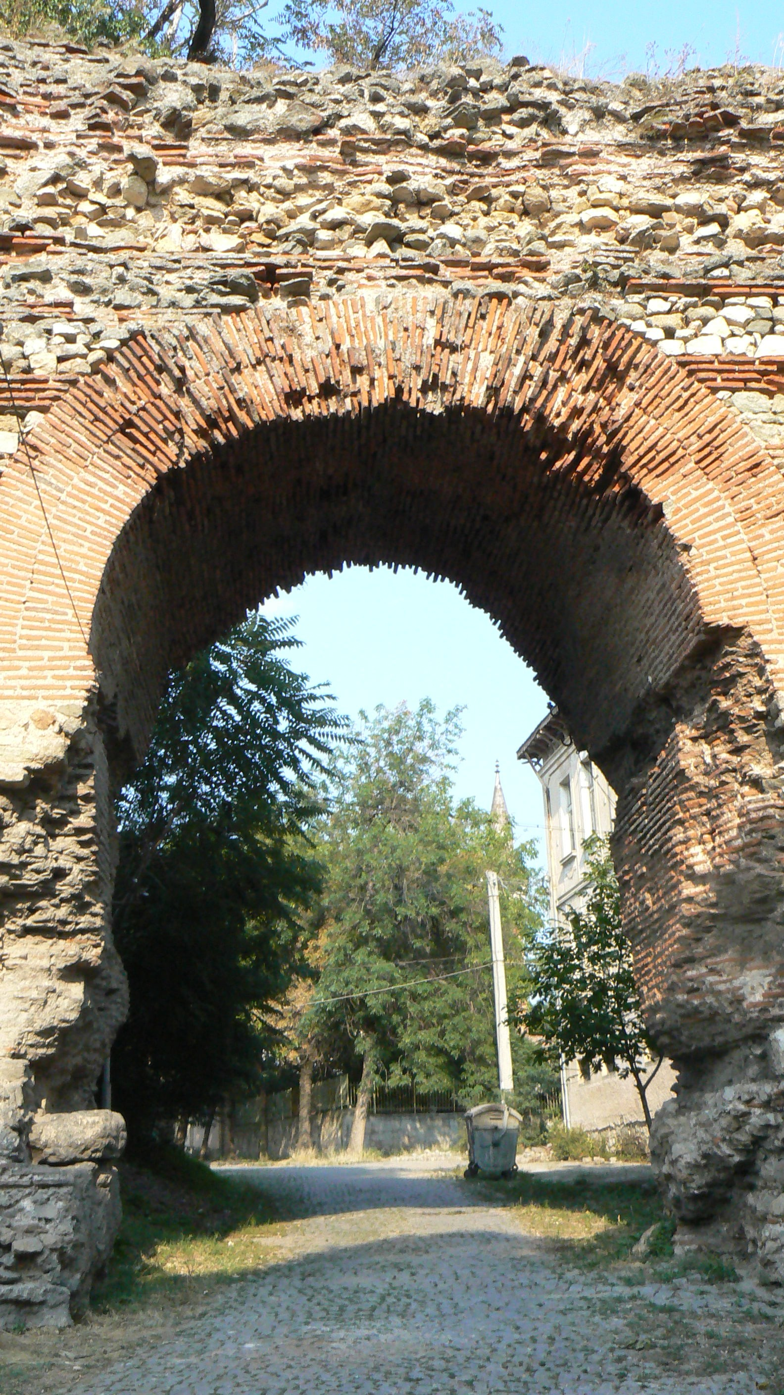 The southern gate of the Roman fortress in Hissarya, Bulgaria.